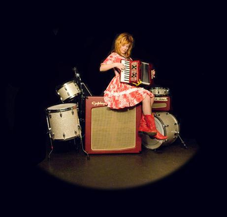 Hola, Piney Gir